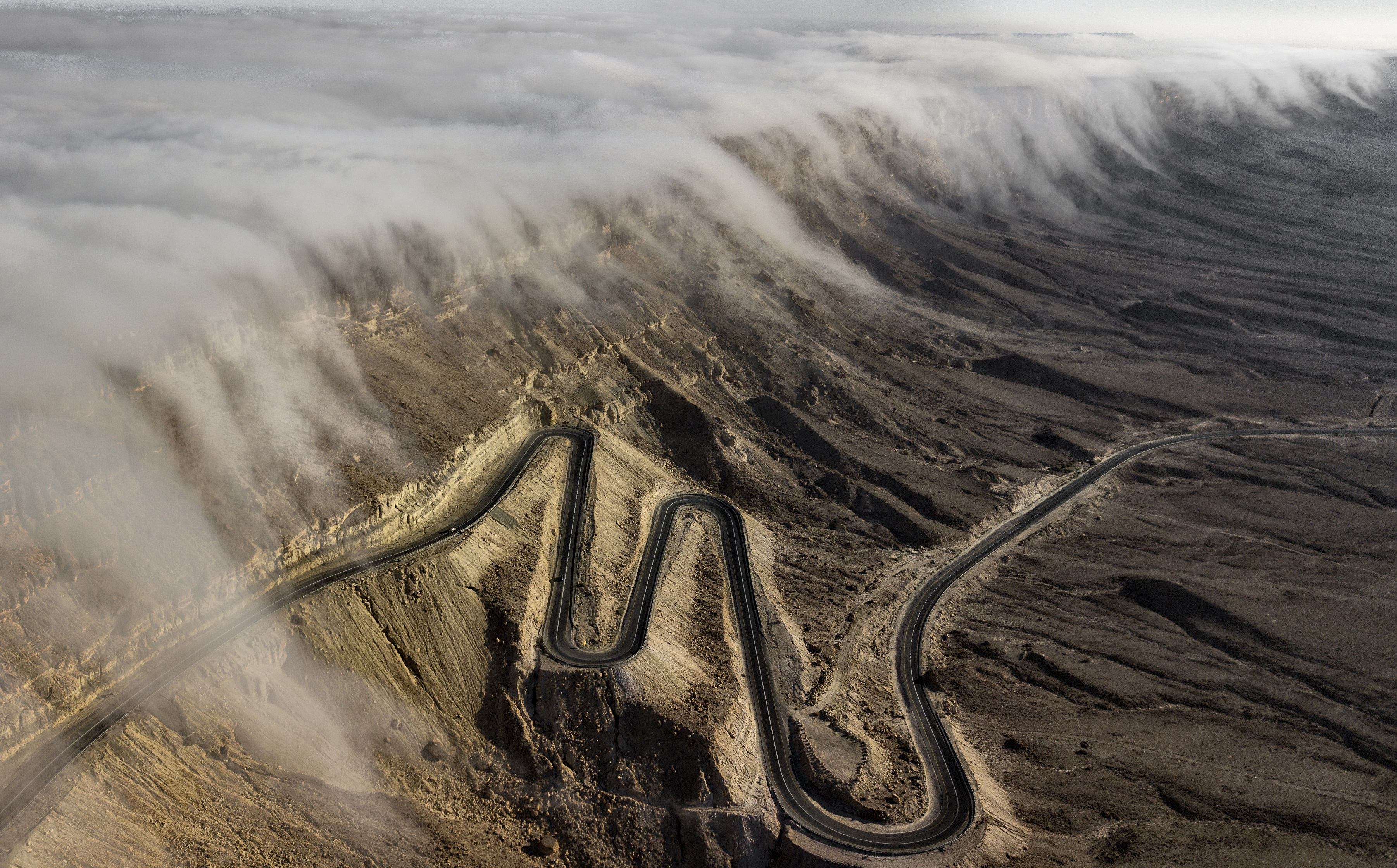 Aerial photo of clouds gliding in Makhtesh Ramon, Negev desert, Israel.